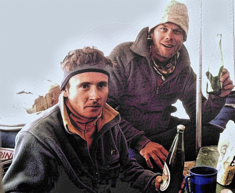 Jean-Christophe Lafaille and David Callaway at Shishapangma base camp